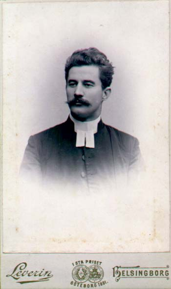 Portrait of swedish professor in theology Sven Herner (1865-1949). Original photo owned by S-Å Hjelmér, Ystad, Sweden.